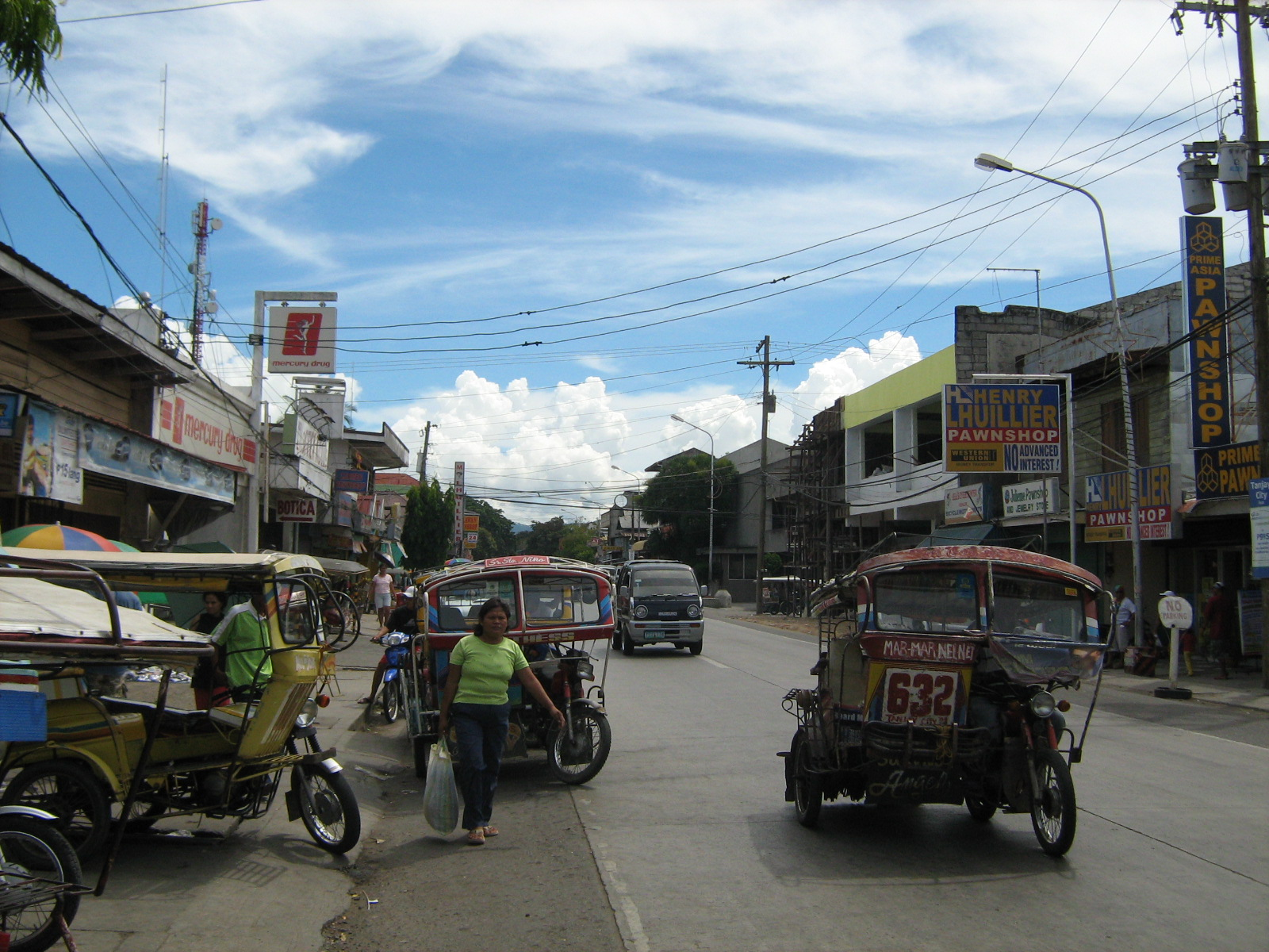 A street scene in Tanjay City, Negros Oriental, Philippines